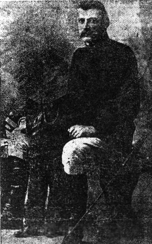 Portrait of Anastasios Papulas.